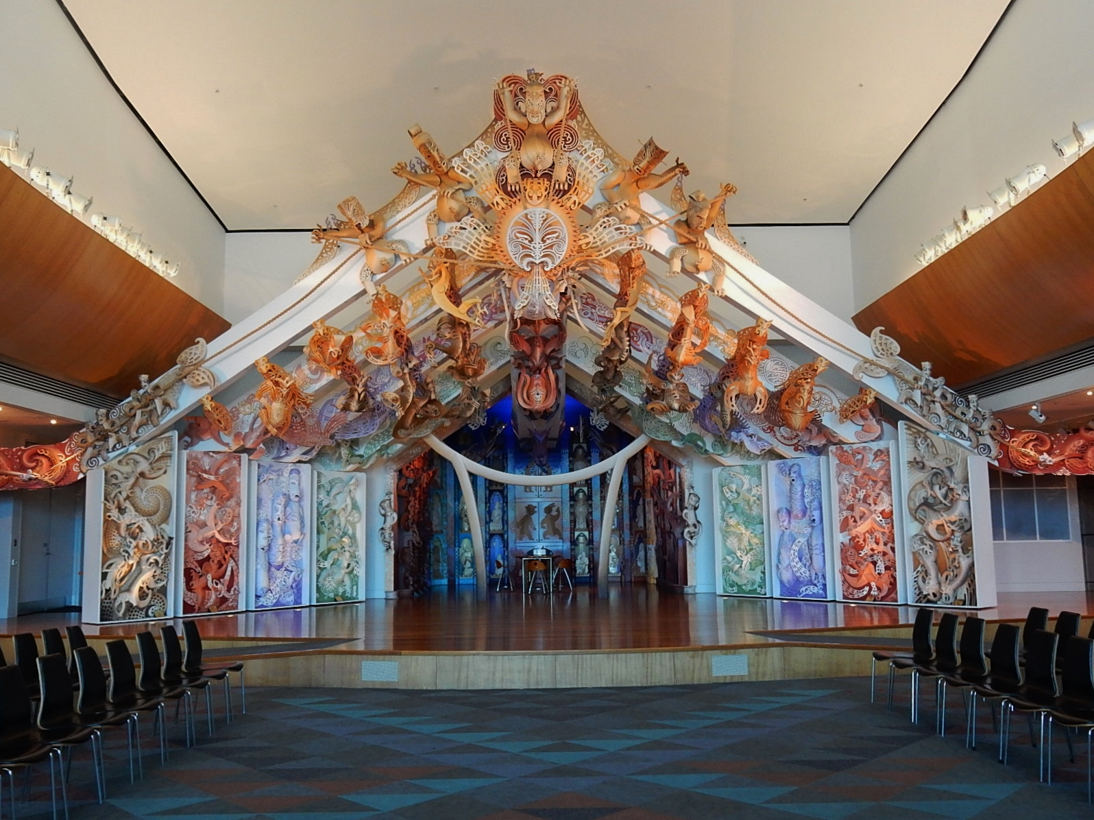 Pretty Marae